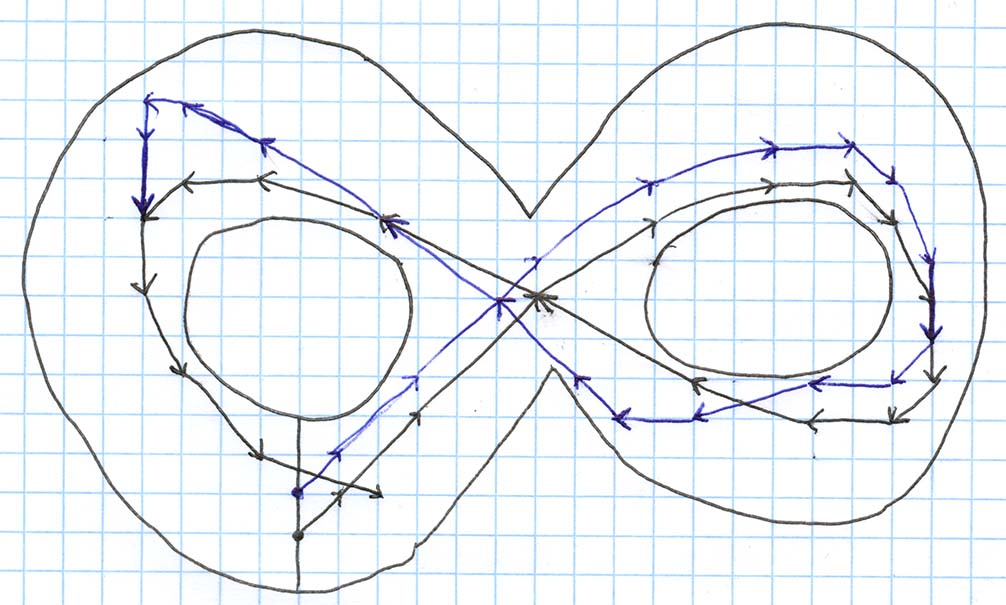 Racetrack game. The black player wins.